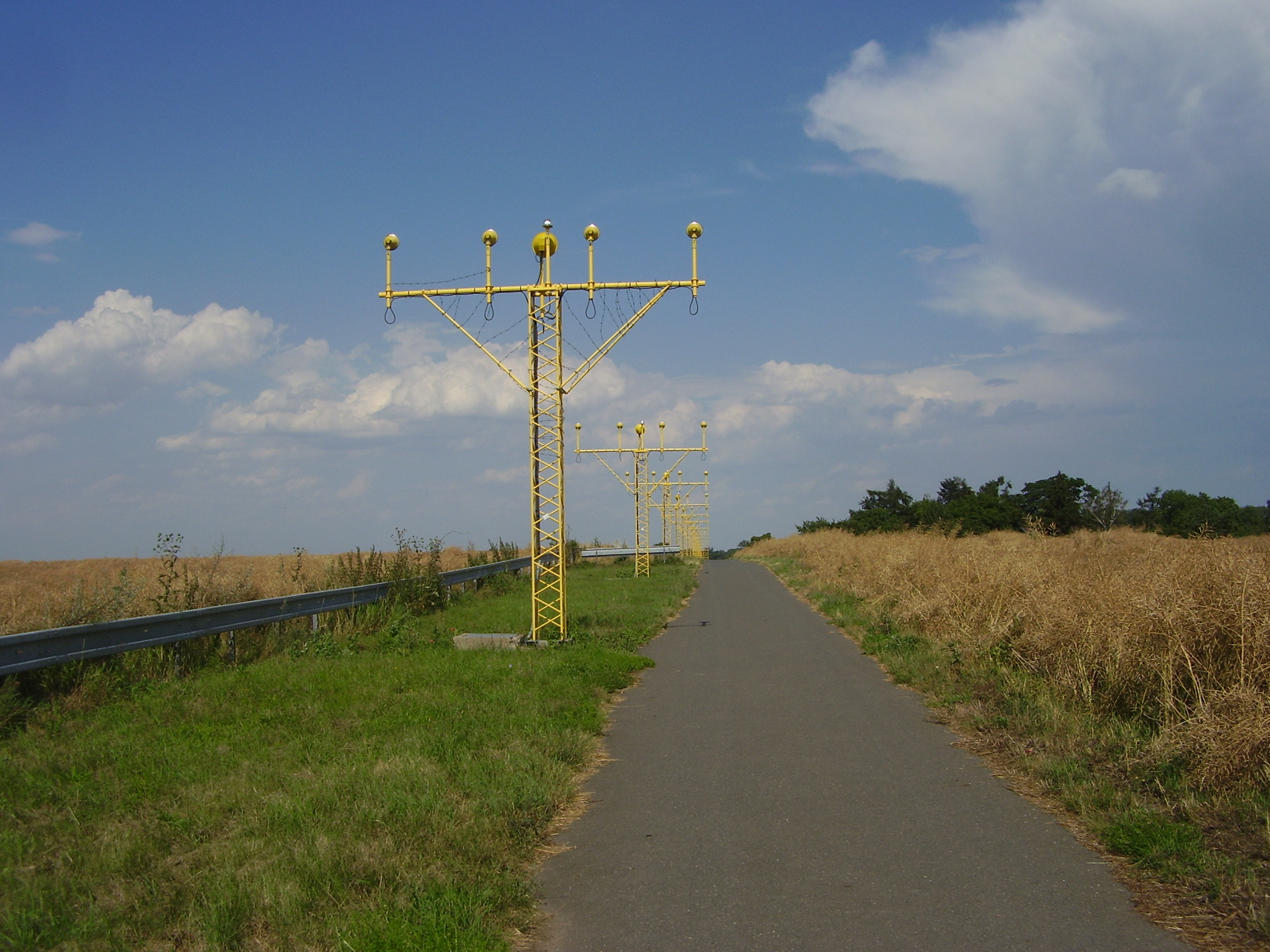 Approach lighting system in Prague-Kbely Airport